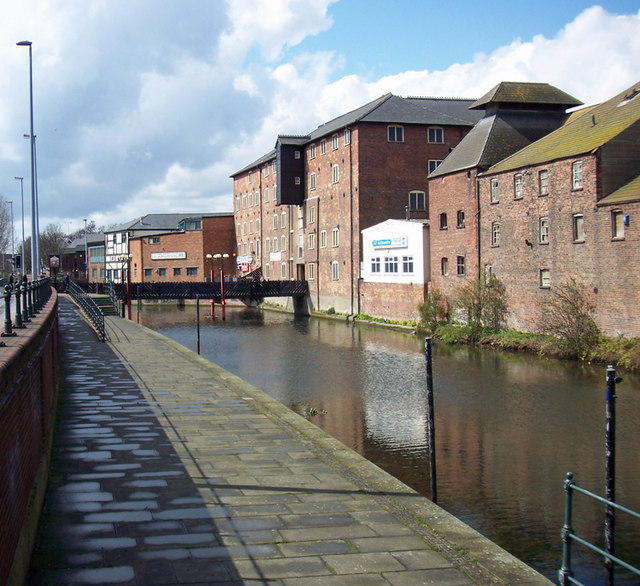 River Freshney The larger building is the old granary.